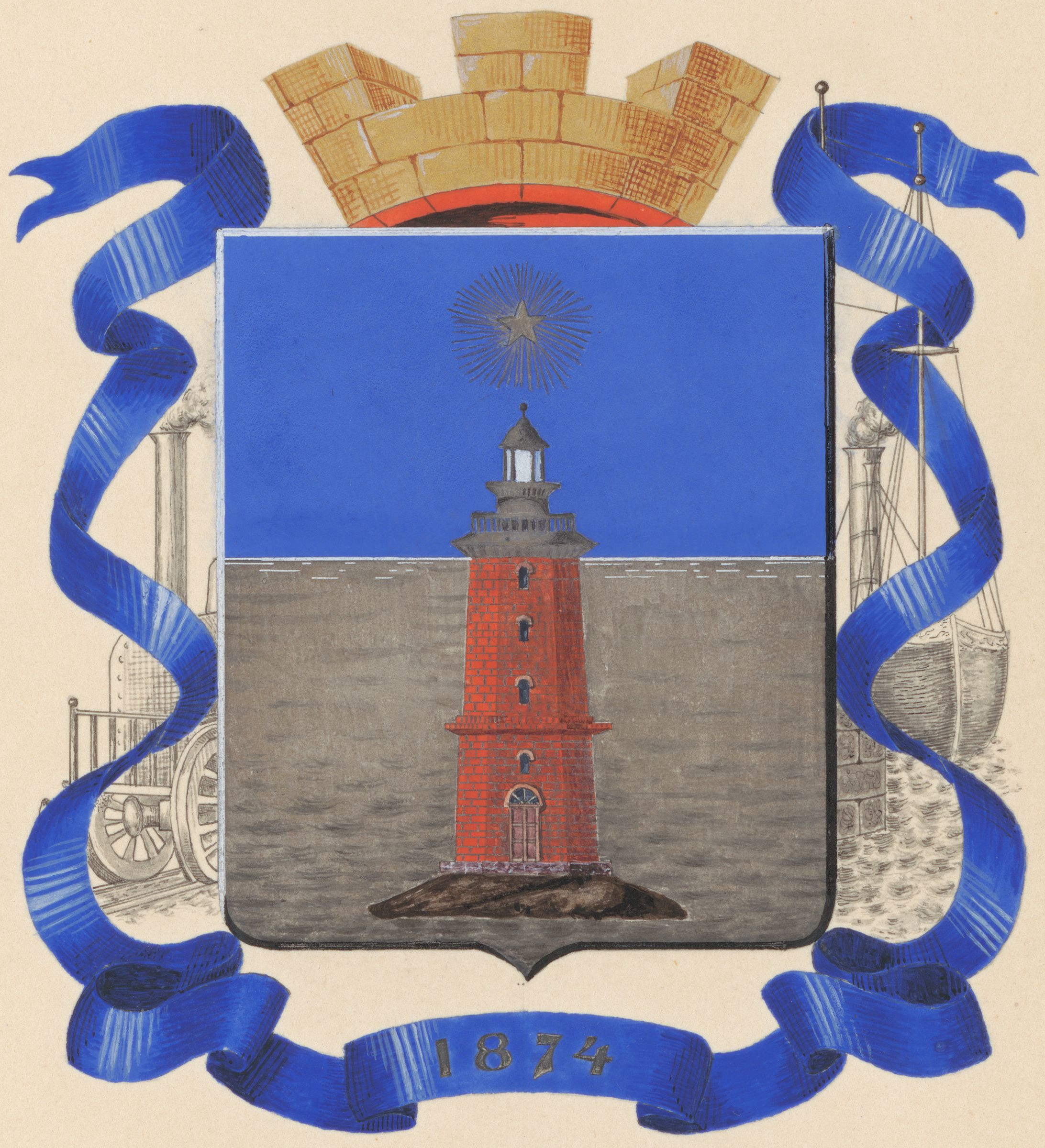 Arms of Hanko from 1881